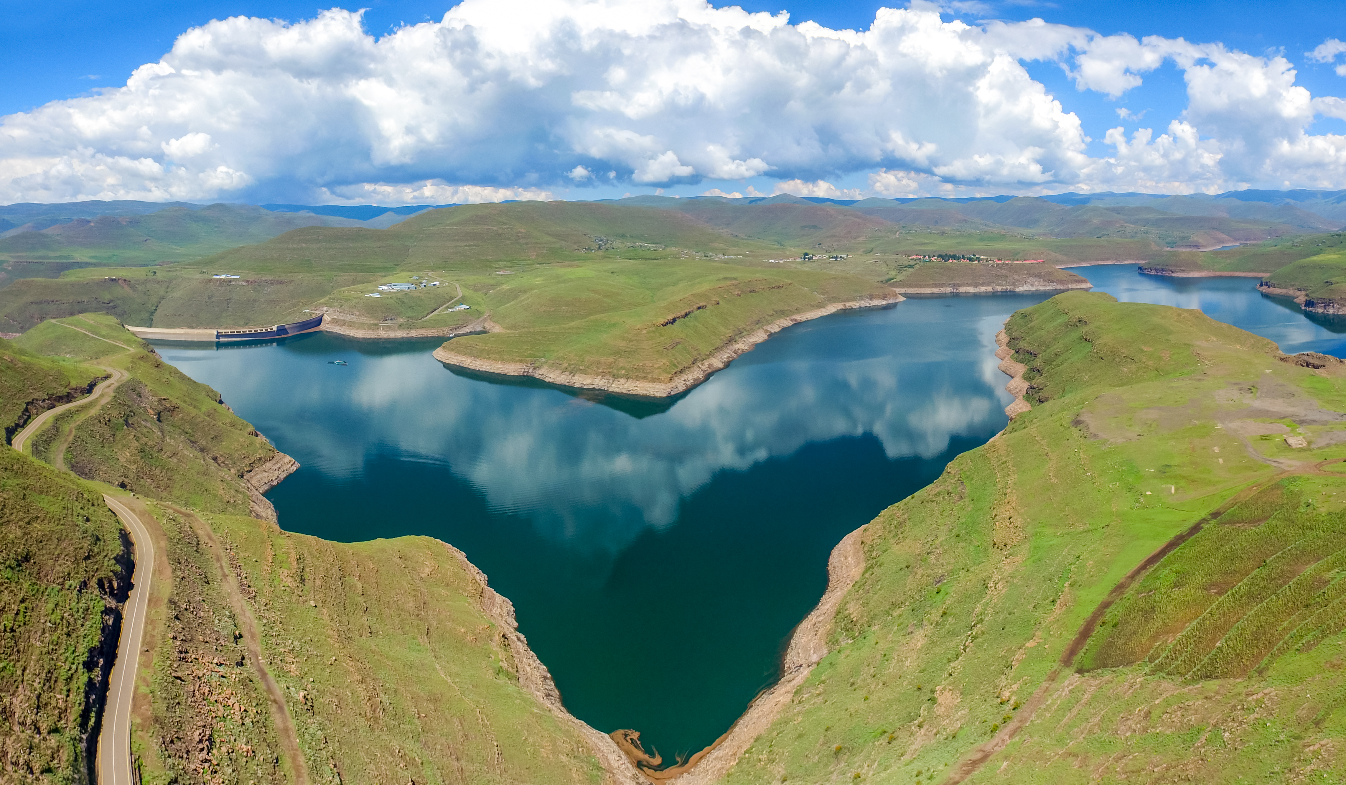 Malibamat'so River in Lesotho